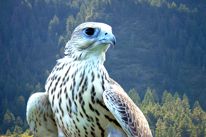 Caption: U.S. AIR FORCE ACADEMY, Colo. -- The newest addition to the academy's falconry program, Yeti, looks for his trainer after being unhooded. This hybrid white gyrfalcon and saker falcon can exceed 200 mph in a dive. Yeti is training for performances and public appearances. (U.S. Air Force photo by David Armer) Source: af.mil category:Images of birds